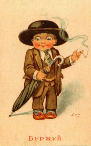 Postcard by Vladimir Taburin